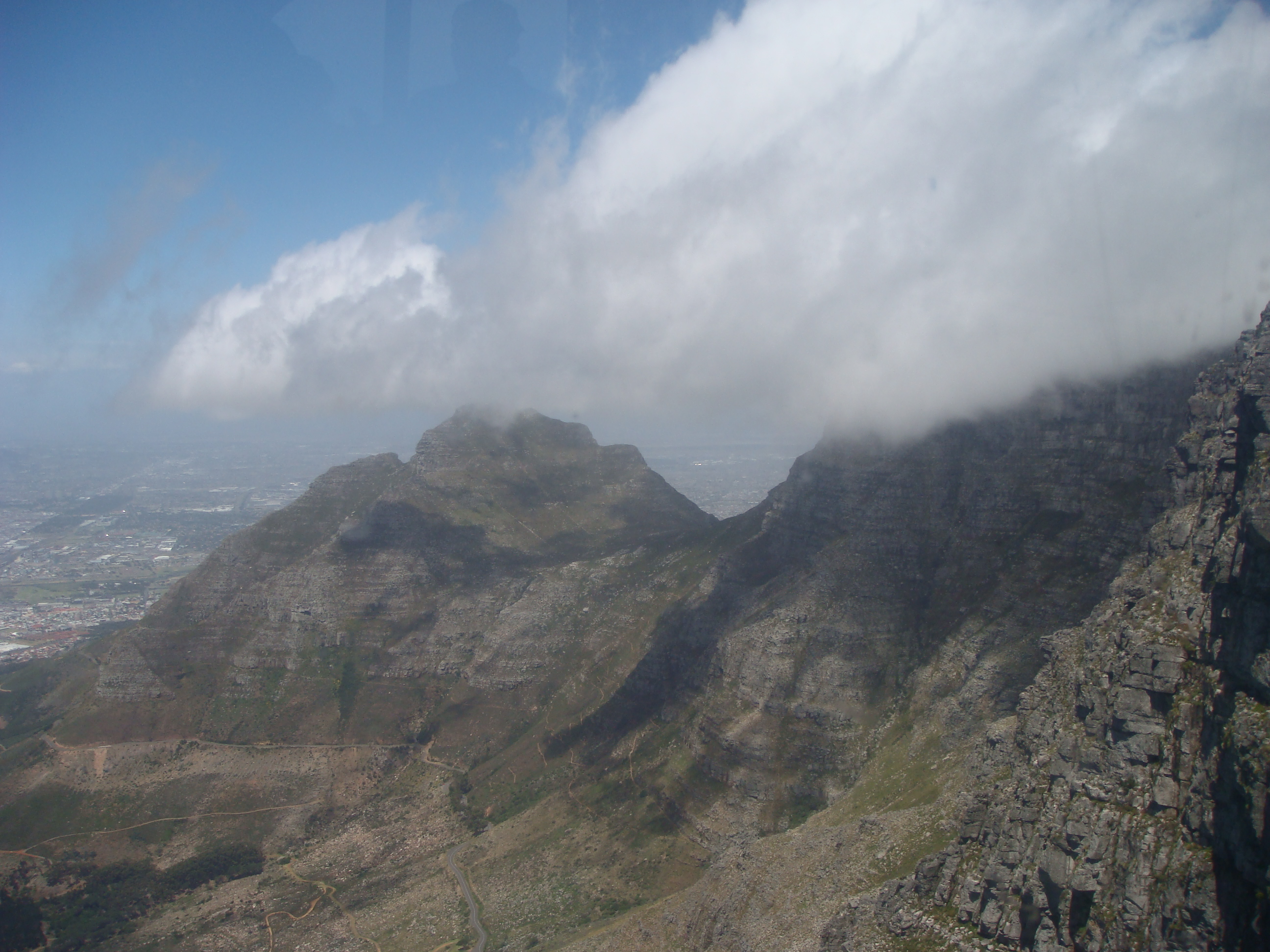 Table Mountain is a flat-topped mountain forming a prominent landmark overlooking the city of Cape Town in South Africa. It is a significant tourist attraction, with many visitors using the cableway to take a ride to the top. The mountain forms part of the Table Mountain National Park. The flat top of the mountain is often covered by cloud spilling over the top to form the "table cloth".